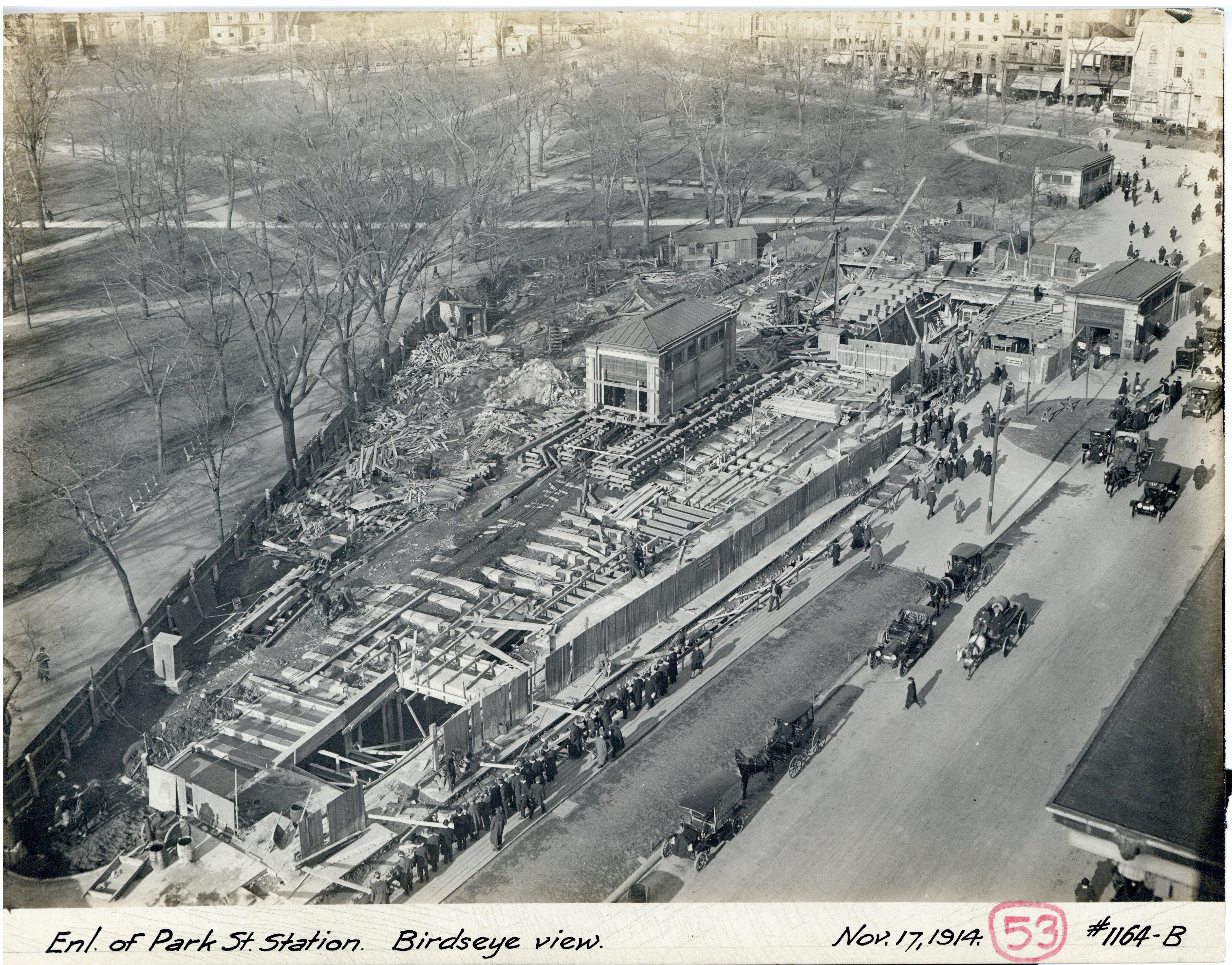 Park Street Station, birdseye view during expansion of the Tremont Street Subway level